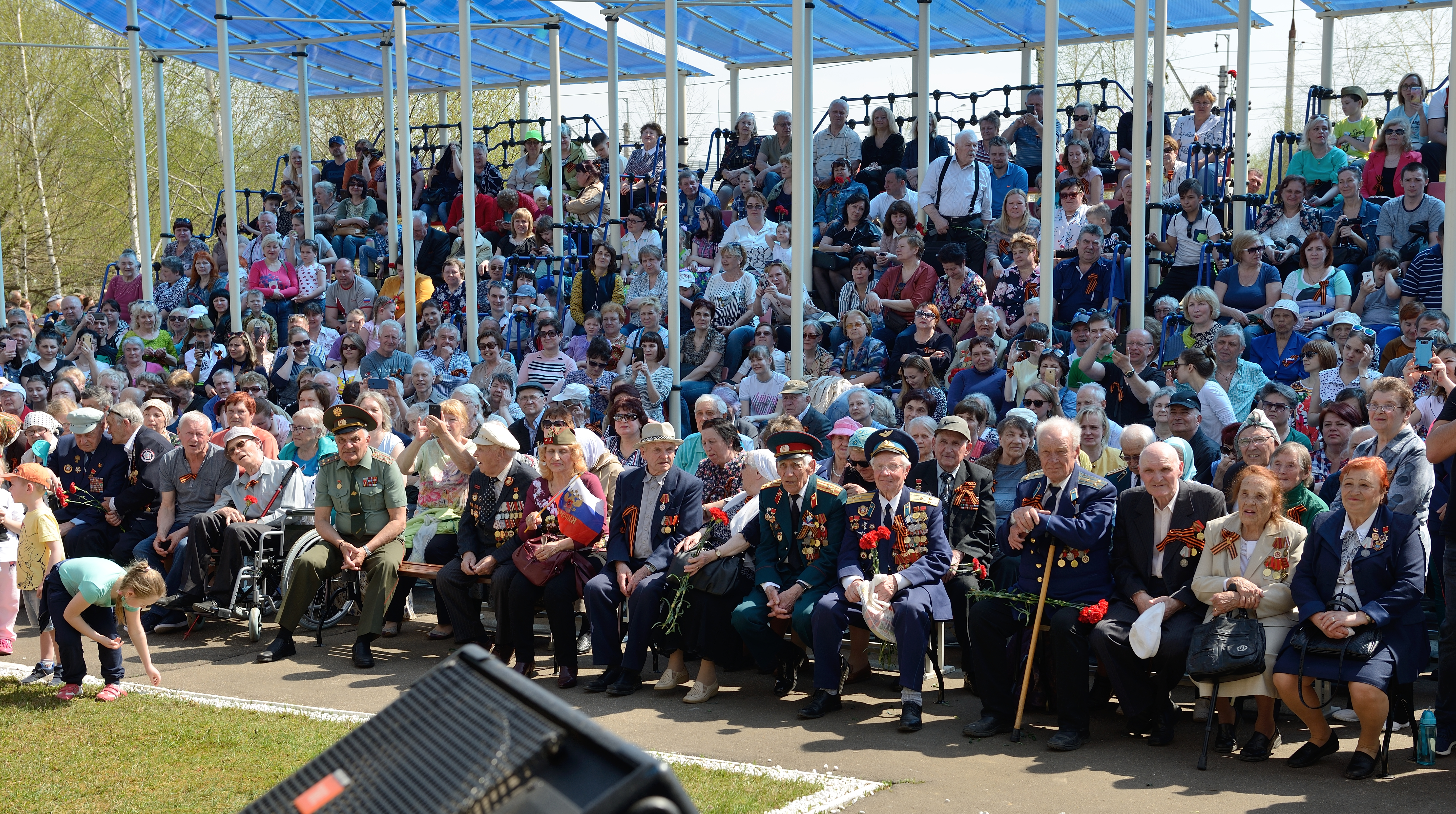 The rostrum of the Victory Park in the village of Krekshino the station 2 may 2018